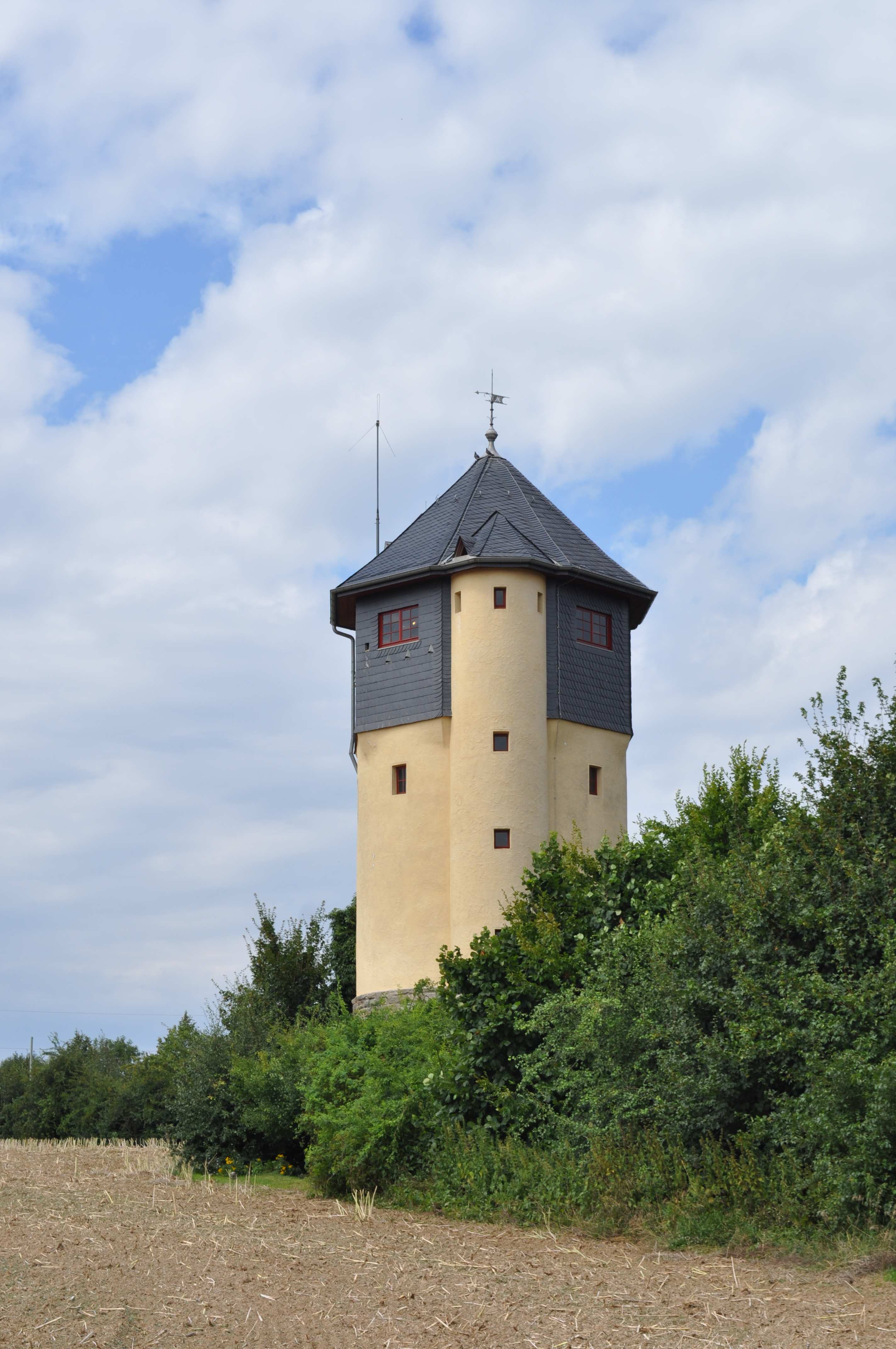 Water tower in Bad Soden